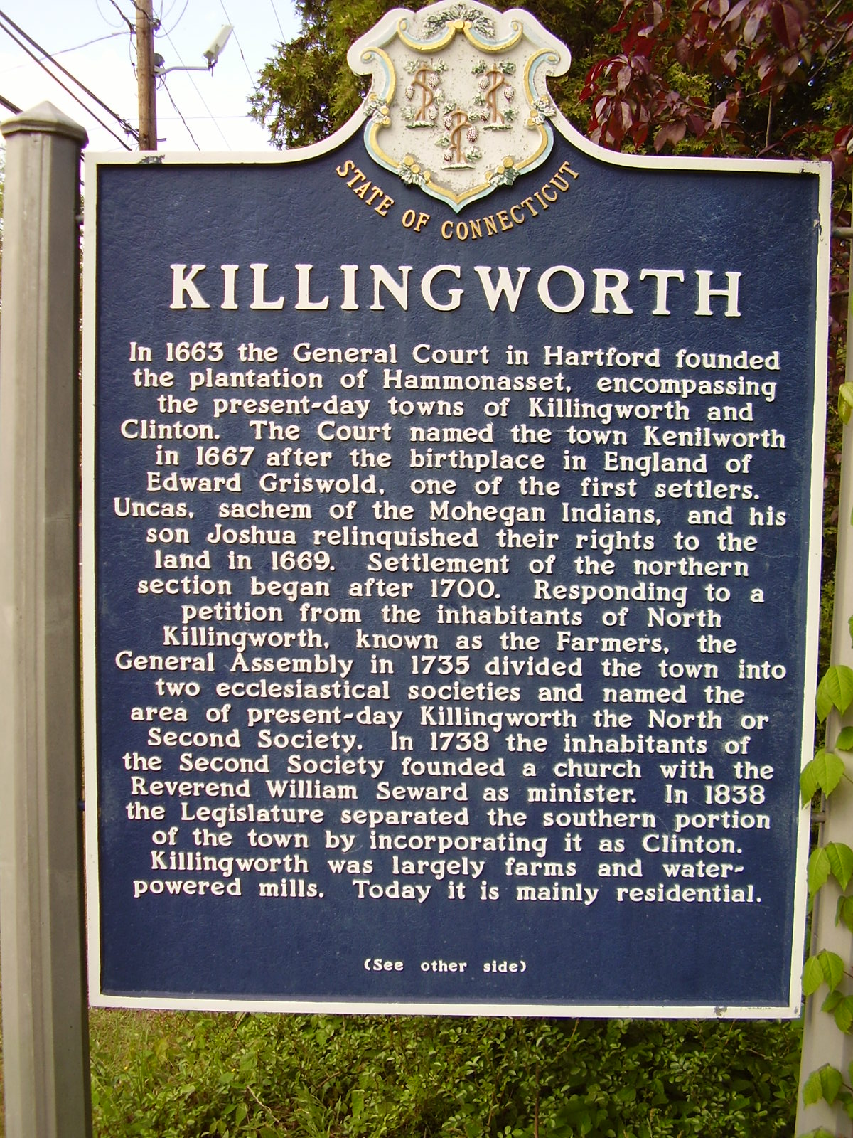 Town historical marker for Killingworth, Connecticut